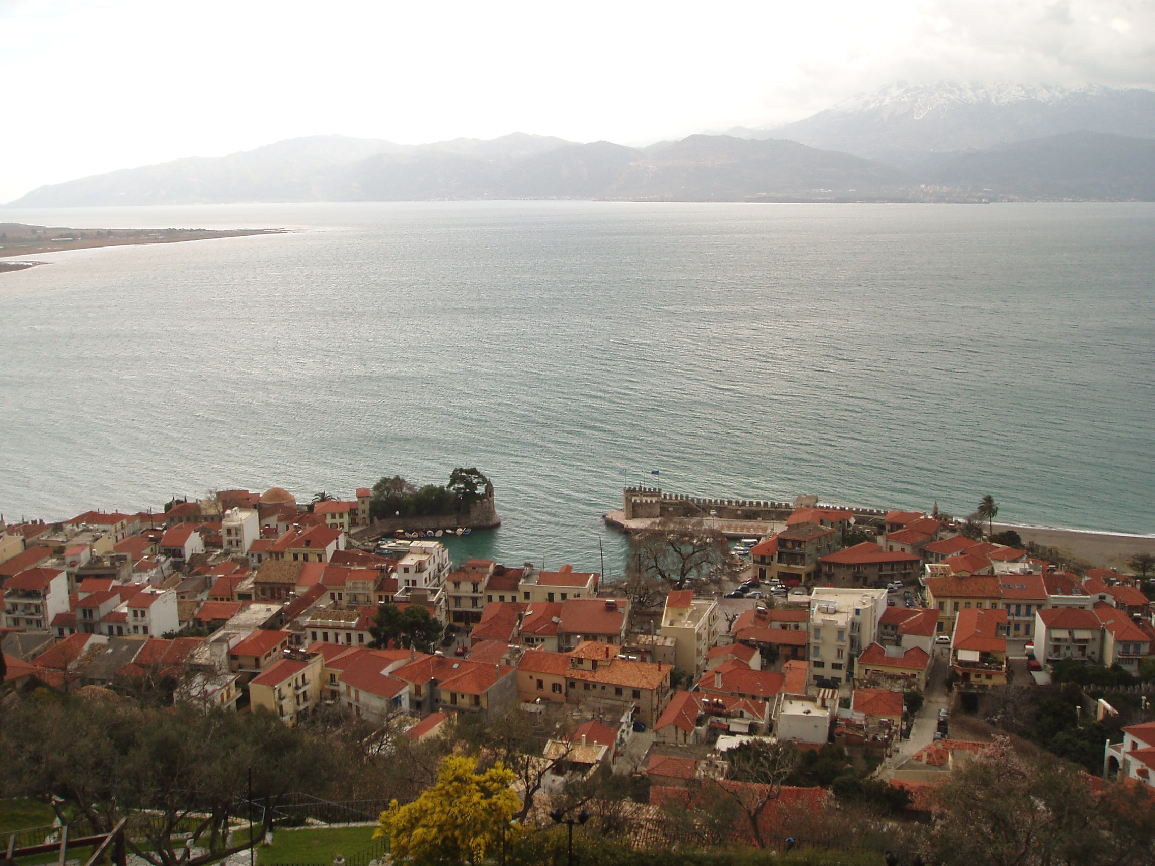 The port of Naupactus (Lepanto), the Gulf of Corinth and Panachaikon Mountain. View from the castle of Naupactus.